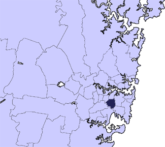 Locator Map Marrickville sydney.png Based on Image:Ku-ring-gai sydney.png by User:Randwicked.